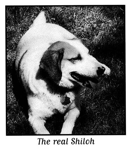 A photo of the beagle Clover who inspired Phyllis Reynolds Naylor's 1991 Newbery Medal-winning children's novel Shiloh